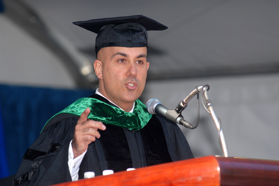 Dr Pedram Salimpour keynote speaker at 2008 commencement exercises, Univeristy of California, Riverside.